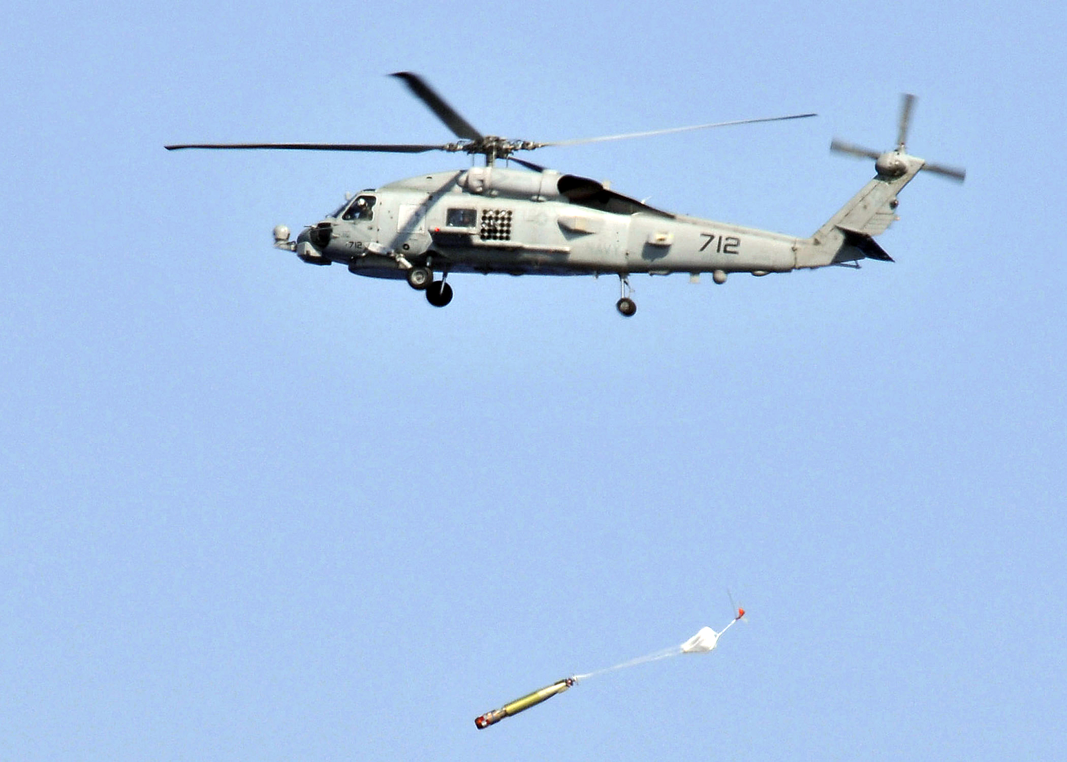 PACIFIC OCEAN (June 22, 2009) An SH-60B Sea Hawk helicopter assigned to the Warlords of Helicopter Anti-Submarine Squadron Light (HSL) 51 drops a MK-46 recoverable exercise torpedo near the guided-missile destroyer USS Mustin (DDG 89) into the Pacific Ocean. Mustin is one of seven Arleigh Burke-class destroyers assigned to Destroyer Squadron (DESRON) 15 and operates from Yokosuka, Japan. (U.S. Navy photo by Mass Communication Specialist 2nd Class Bryan Reckard/Released)